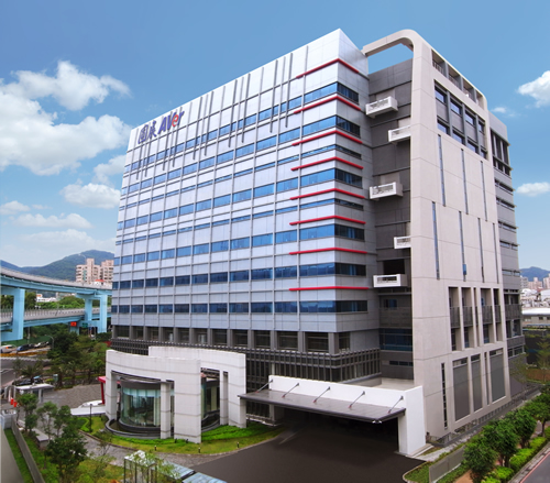 AVer Information Inc. headquarters中文（台灣）: 圓展科技總部，位於新北市土城區大安路157號。